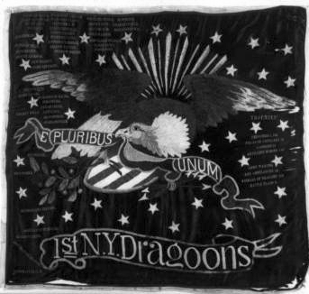 Flag of the First Regiment, New York Dragoons, New-York Historical Society Museum